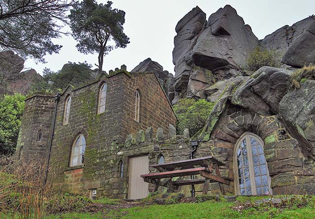 Rock Hall The cottage dates from 1850, and has recently been rented to the BMC as the Don Whillans Memorial Hut. Approach prior to 1992 was hazardous, due to the self-styled "Lord of the Roaches" being fiercely protective of his territory, and suspicious of officials.